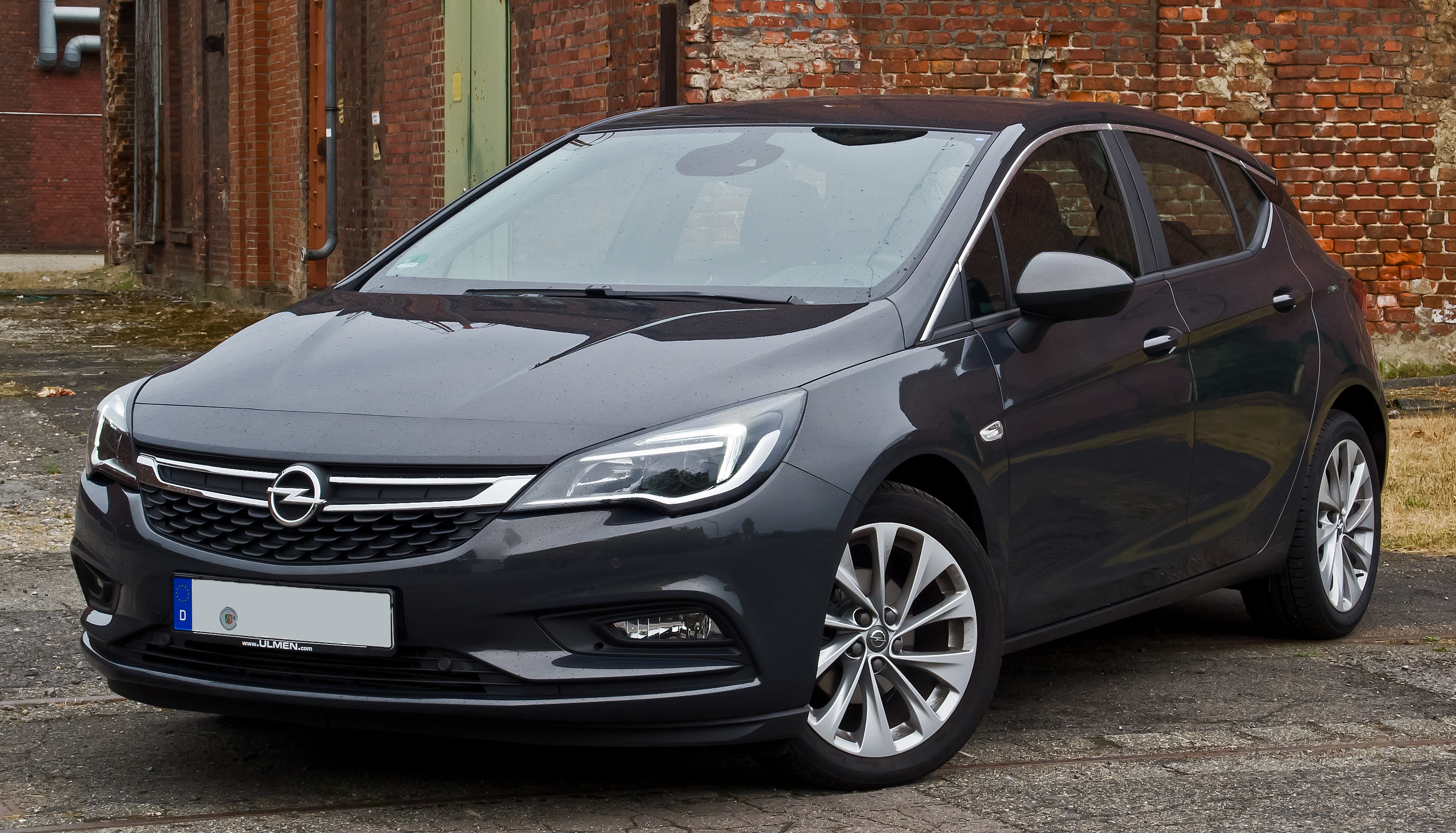 Opel Astra 1.4 EDIT Edition (K)